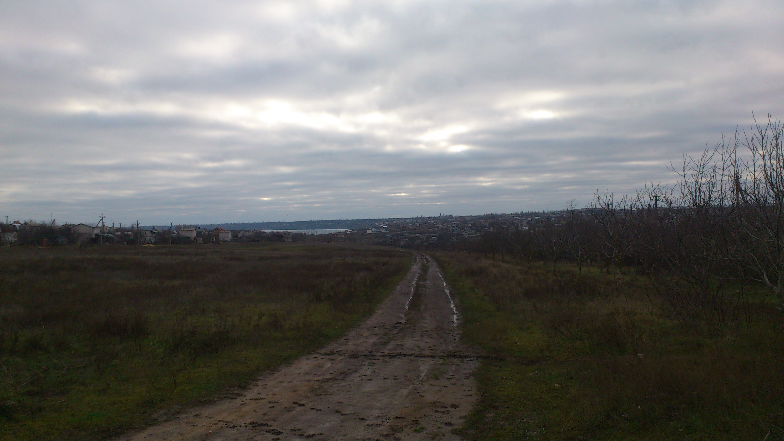 Slyvyne, Ukraine